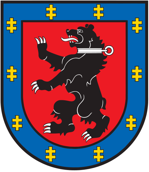 Coat of arms of Telšiai County, Lithuania